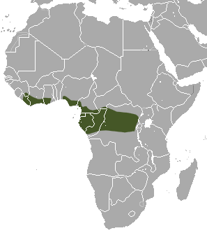 Zenker's Fruit Bat (Scotonycteris zenkeri) range